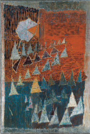 Painting by Ilka Gedő at the Hungarian National Gallery THE MARCH OF TRIANGLES Oil on canvas, 84 x 75 cm